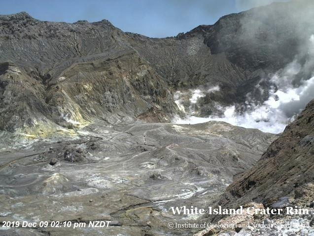 A webcam image showing hikers walking on the crater rim of the Whakaari/White Island volcano, a minute before the 2019 Whakaari/White Island eruption